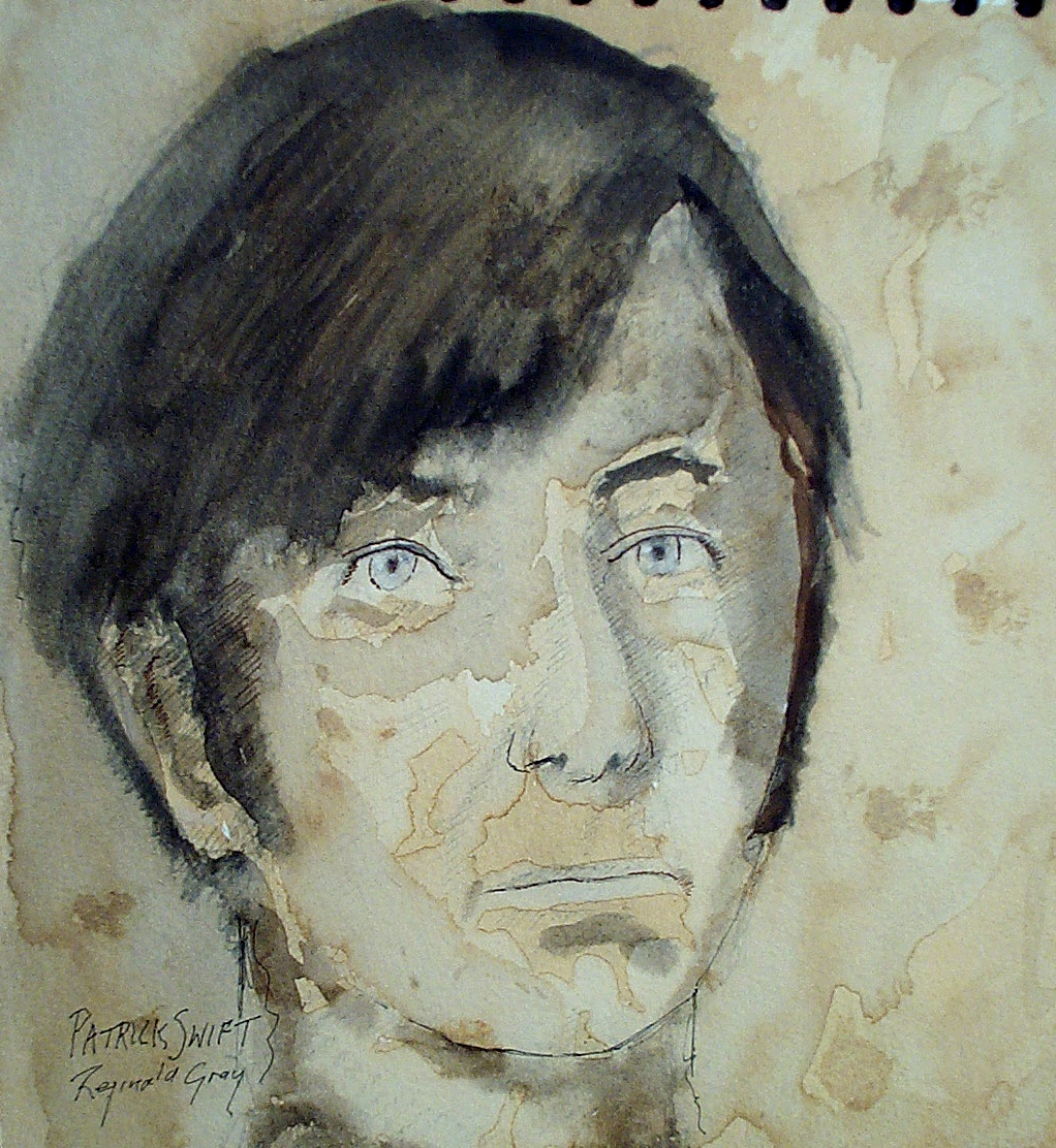 Study of Irish artistPatrick Swift 1980 Wash drawing